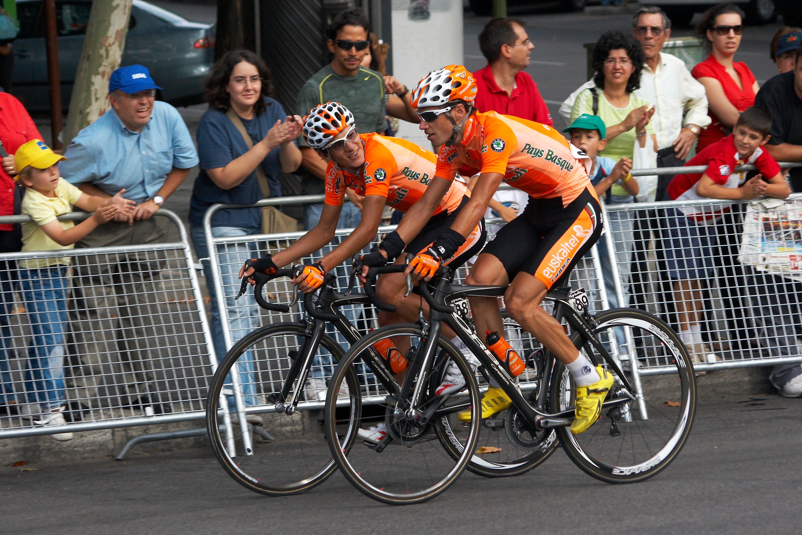 VELASCO MURILLO Ivan (89/ESP) and TXURRUKA Amets (88/ESP), 2008 Vuelta a España, Madrid, Spain.